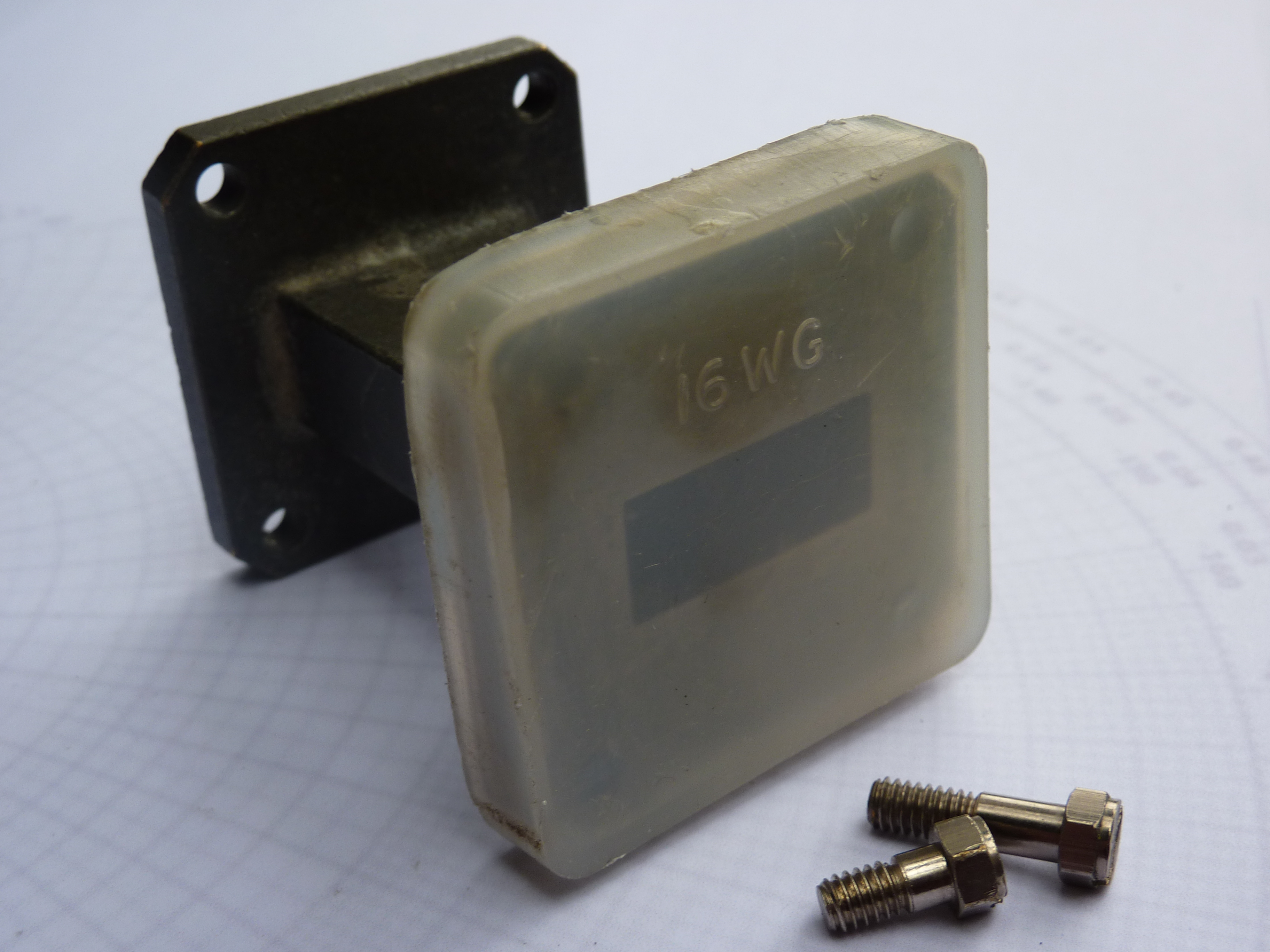 Protective plastic cap on a disconnected WG16 (WR90) waveguide cover flange.